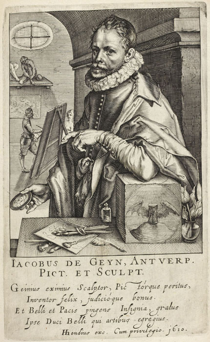 "Jacobus de Geyn, Antwerp Pict. et Sculpt."; print of the artist Jacob de Gheyn II by Hendrick Hondius for his Pictorum aliquot Germaniae Inferioris Effigies, Antwerp, Antwerp, 1610